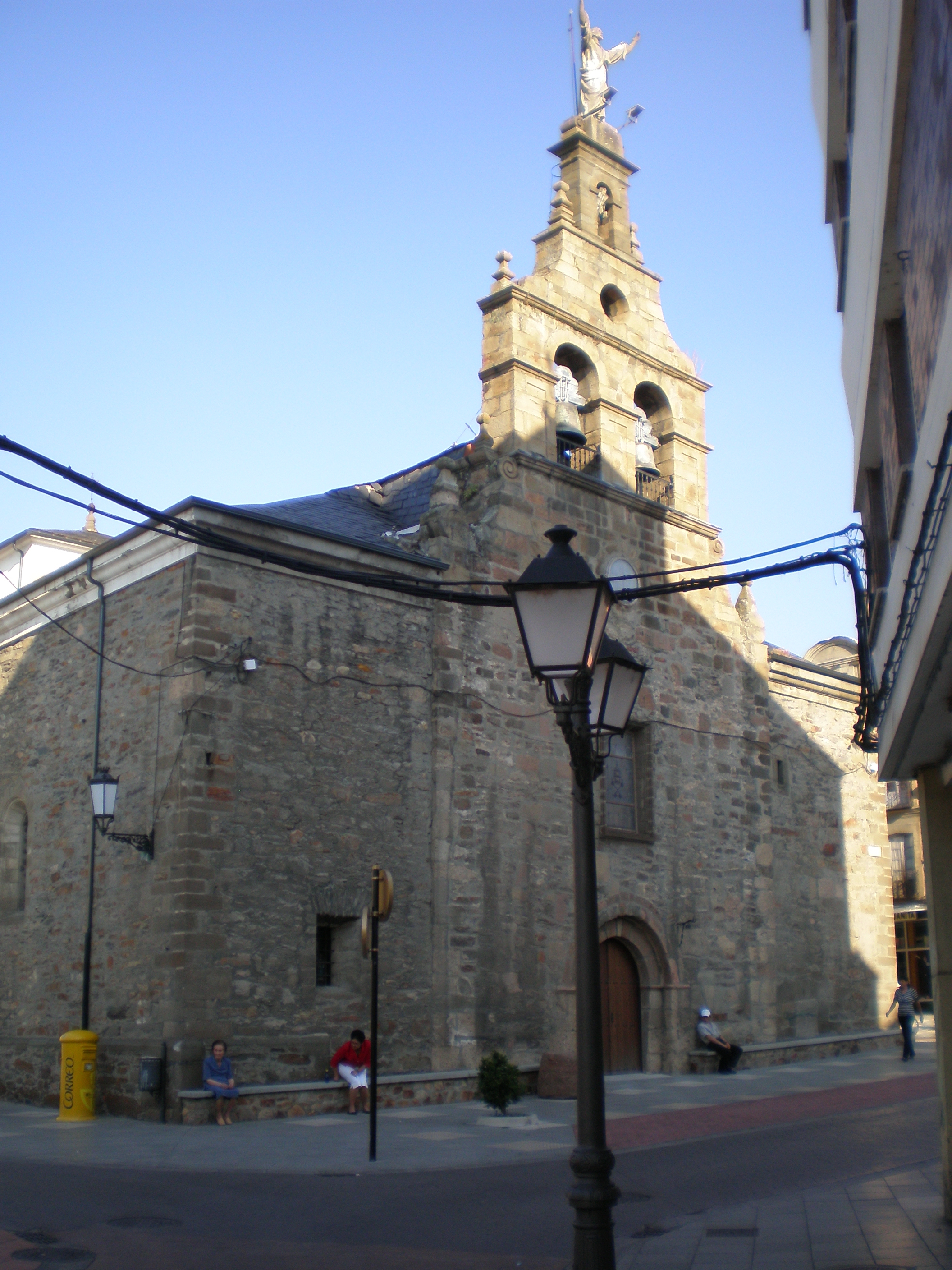 Bembibre.